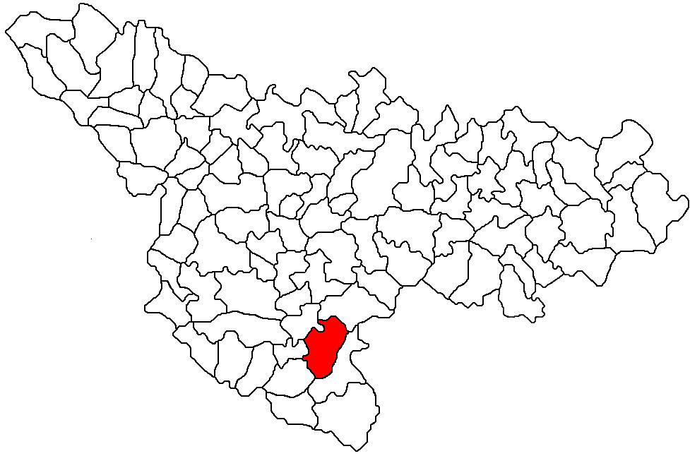 Locator map of the Commune of Birda, Timiș County, Romania